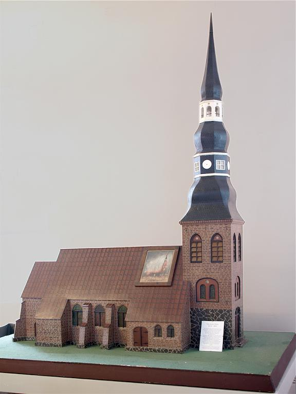 Krempe (Schleswig-Holstein, Germany), Old church, photo 2009